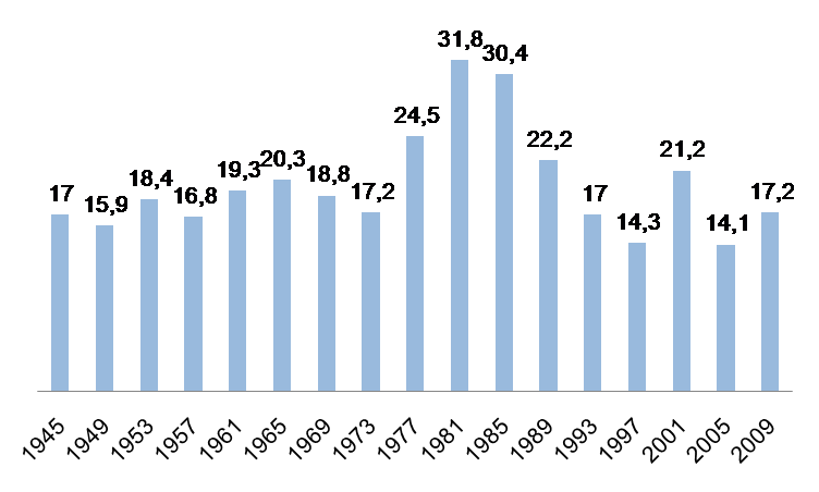 Electoral results of the Norwegian Conservative Party since 1945.